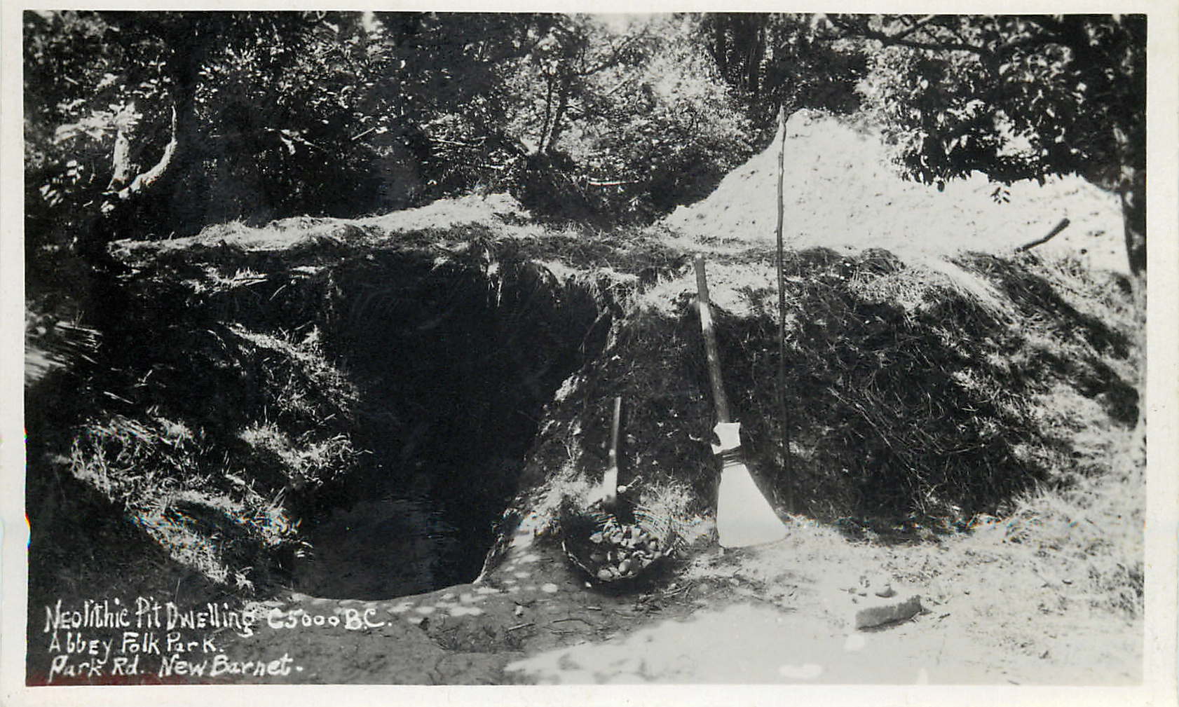 Neolithic Pit Dwelling C5000 B.C. Abbey Folk Park. Park Rd. New Barnet